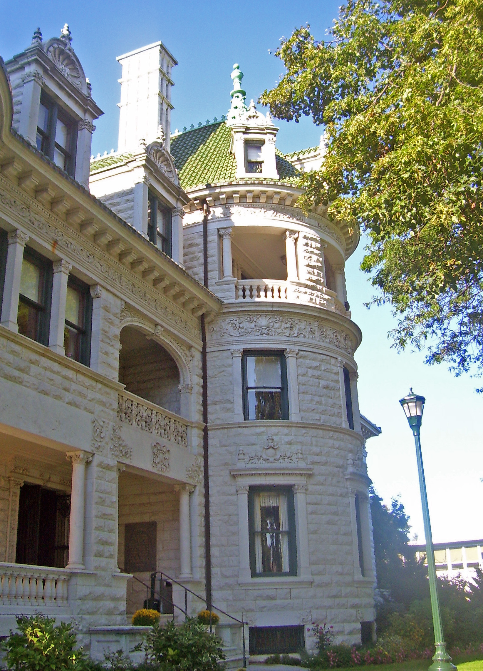 Former Webb Horton House, now Morrison Hall on the campus of Orange County Community College (SUNY Orange) in Middletown, NY, USA